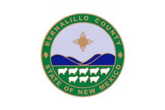 Flag of Bernalillo County, New Mexico, USA